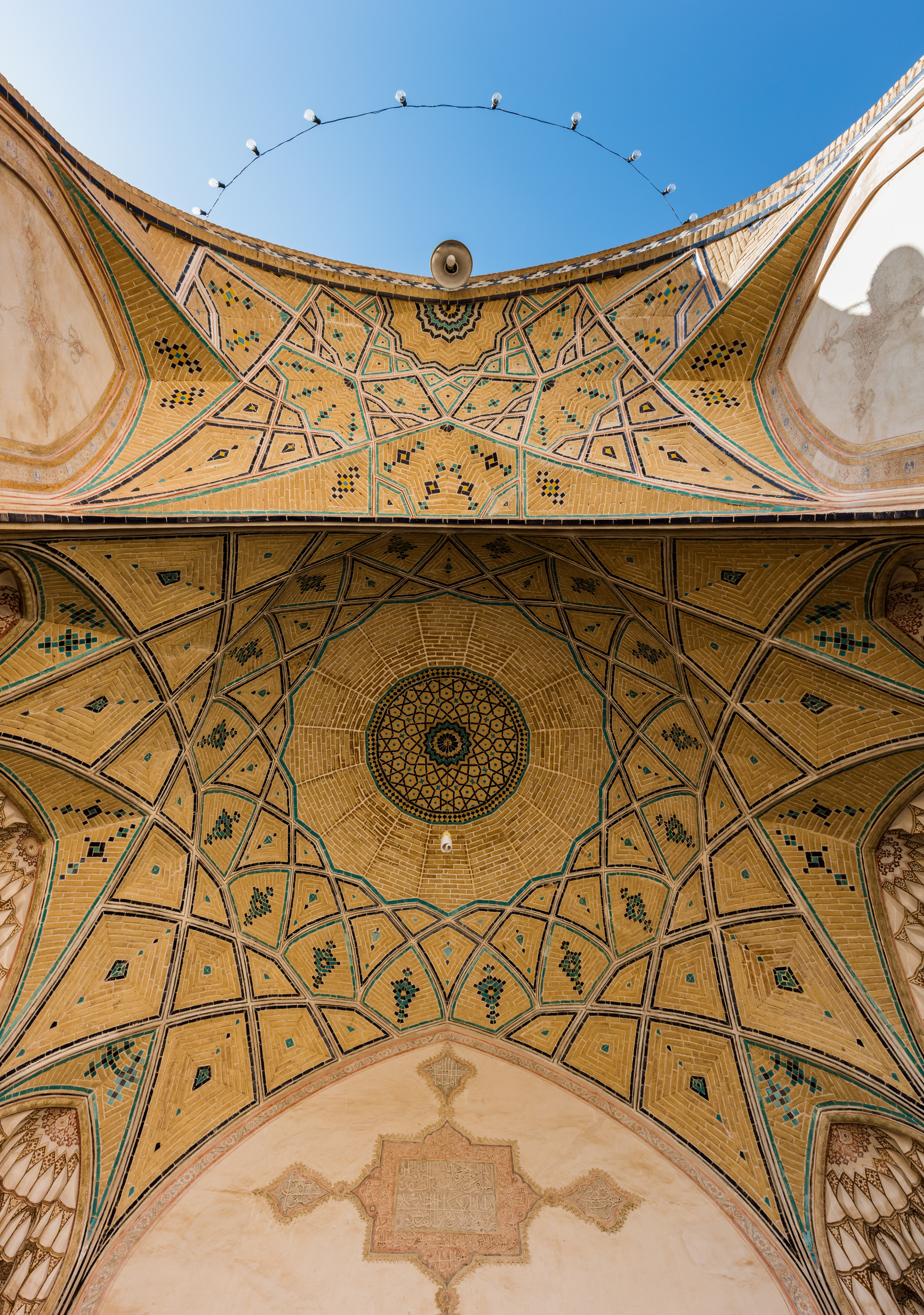 Bottom view of one of the iwans of the Agha Bozorg mosque, a historical mosque in Kashan, Iran. The mosque, located in the center of the city, was built in the late 18th century by master-mimar Ustad Haj Sa'ban-ali. The mosque consists of two large iwans, one in front of the mihrab and the other by the entrance and the courtyard in the middle.